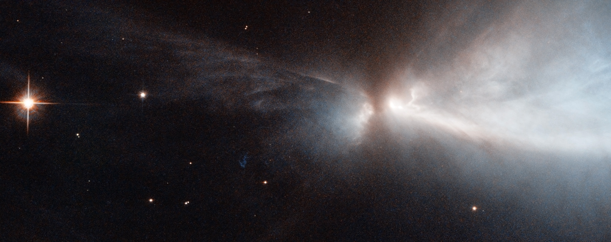 This striking new image, captured by the NASA/ESA Hubble Space Telescope, reveals a star in the process of forming within the Chamaeleon cloud. This young star is throwing off narrow streams of gas from its poles — creating this ethereal object known as HH 909A. These speedy outflows collide with the slower surrounding gas, lighting up the region. When new stars form, they gather material hungrily from the space around them. A young star will continue to feed its huge appetite until it becomes massive enough to trigger nuclear fusion reactions in its core, which light the star up brightly. Before this happens, new stars undergo a phase during which they violently throw bursts of material out into space. This material is ejected as narrow jets that streak away into space at breakneck speeds of hundreds of kilometres per second, colliding with nearby gas and dust and lighting up the region. The resulting narrow, patchy regions of faintly glowing nebulosity are known as Herbig-Haro objects. They are very short-lived structures, and can be seen to visibly change and evolve over a matter of years (heic1113) — just the blink of an eye on astronomical timescales. These structures are very common within star-forming regions like the Orion Nebula, or the Chameleon I molecular cloud — home to the subject of this image. The Chameleon cloud is located in the southern constellation of Chameleon, just over 500 light-years from Earth. Astronomers have found numerous Herbig-Haro objects embedded in this stellar nursery, most of them emanating from stars with masses similar to that of the Sun. A few are thought to be tied to less massive objects such as brown dwarfs, which are "failed" stars that did not hit the critical mass to spark reactions in their centres. A version of this image was entered into the Hubble's Hidden Treasures image processing competition by contestant Judy Schmidt.